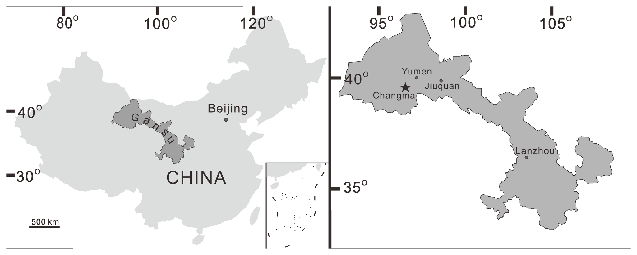 Geographic location of the Changma Basin (indicated by star), Gansu Province, People’s Republic of China.